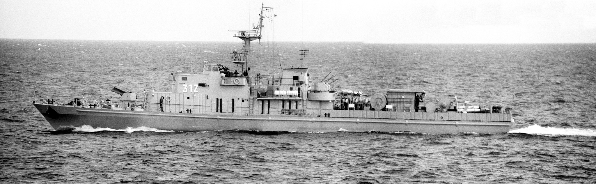 This is the Genthin (312), the second in class of the Kondor II patrol minesweepers of the-then East German Navy. It is armed with three twin 25mm gun mounts and can carry mines. Crew: 40. This unit was seen close to the maritime Inner German Border where it was being employed as a spotter for all shipping of interest entering the Baltic. License on Flickr (2011-07-28): CC-BY-SA-2.0 Flickr tags: Kondor II, Kondor, class, Genthin, 312, patrol, minesweeper, East German Navy